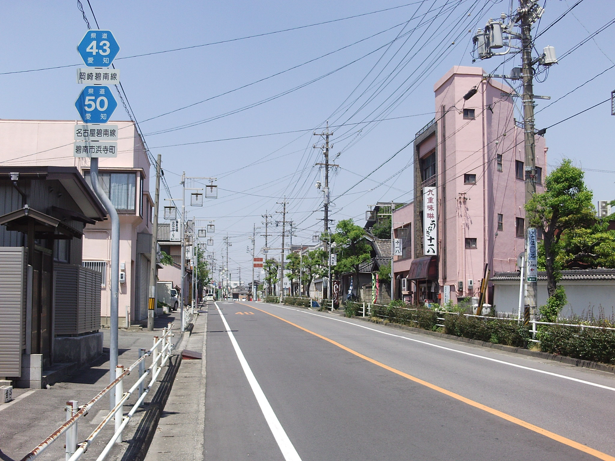 Aichi Prefectural Road Routes 43 and 50 in Hamaderamachi, Hekinan City